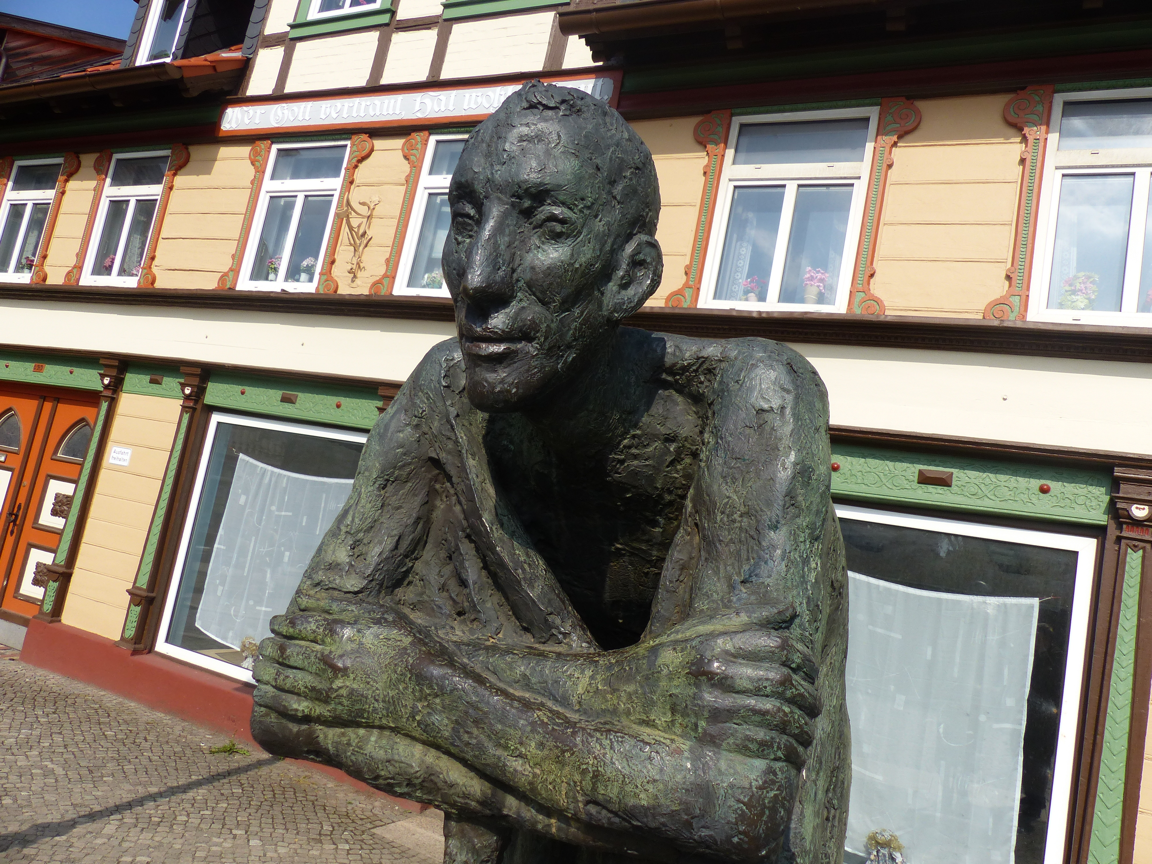 The sculpture "Die Rast" by Jo Jastram in front of the museum Kleinstes Haus in Wernigerode.